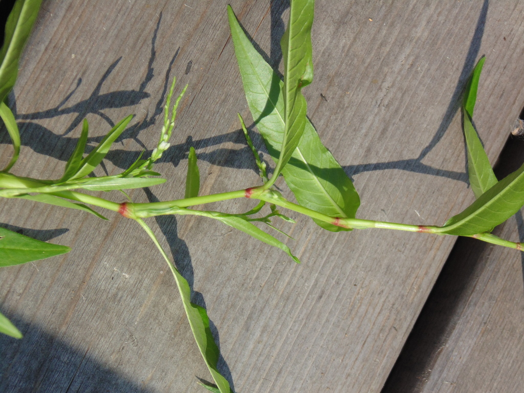 Stem of Persicaria hydropiper, showing sheathed 'nodes' at base of leaves. Photographed in Ottawa, Canada in 2018